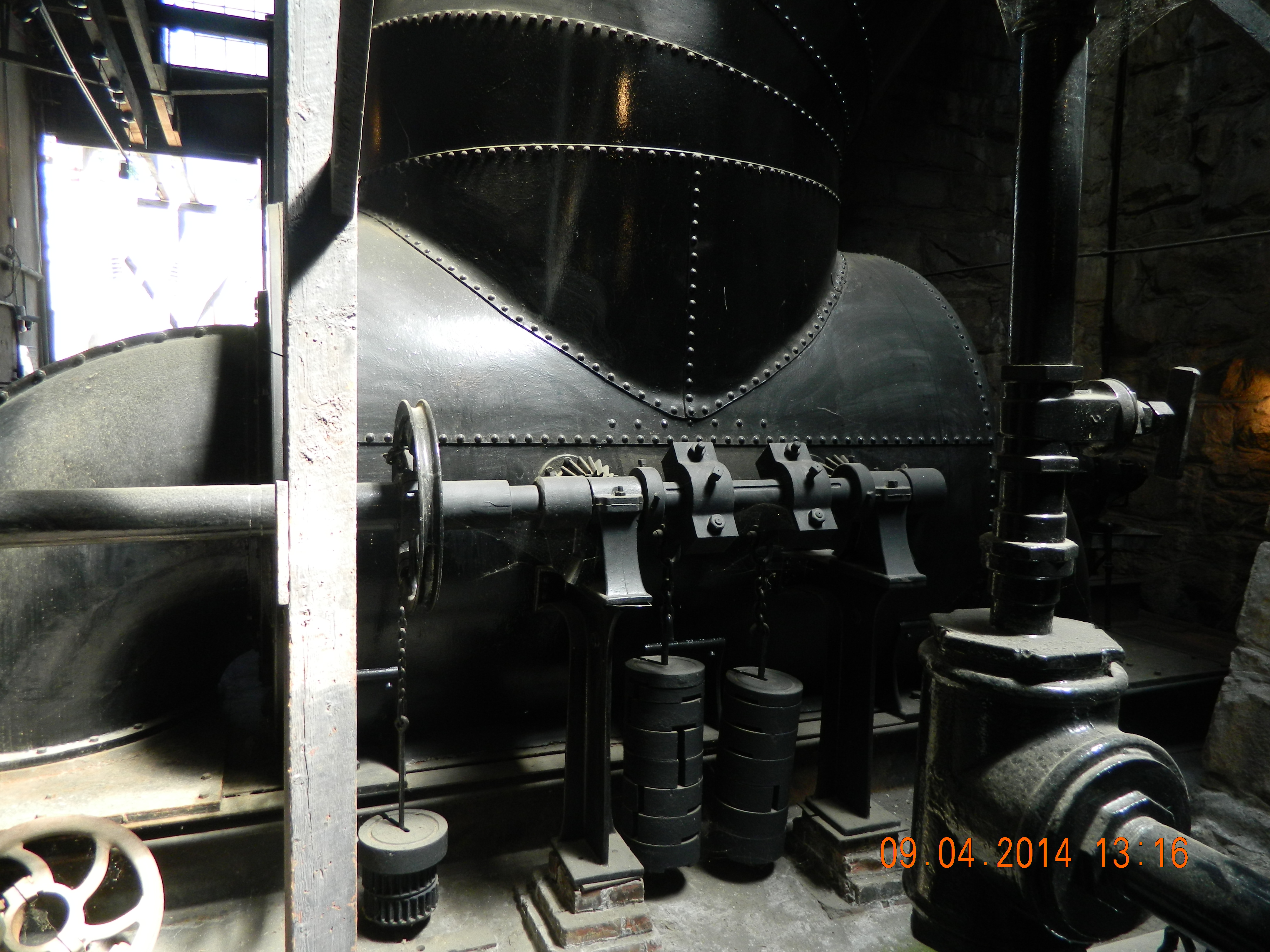 McCormick supplied by S. Morgan Smith 1,620 Hp